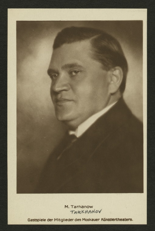 Michael Michailovich Tarkhanov